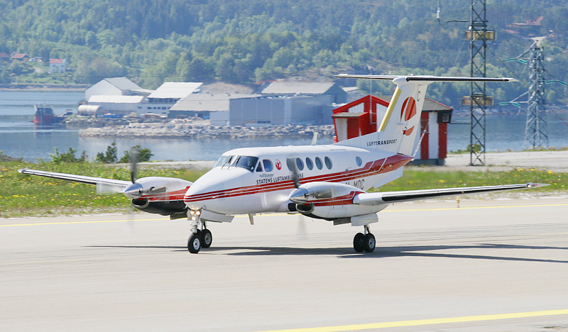 Lufttransport Beech King Air 200